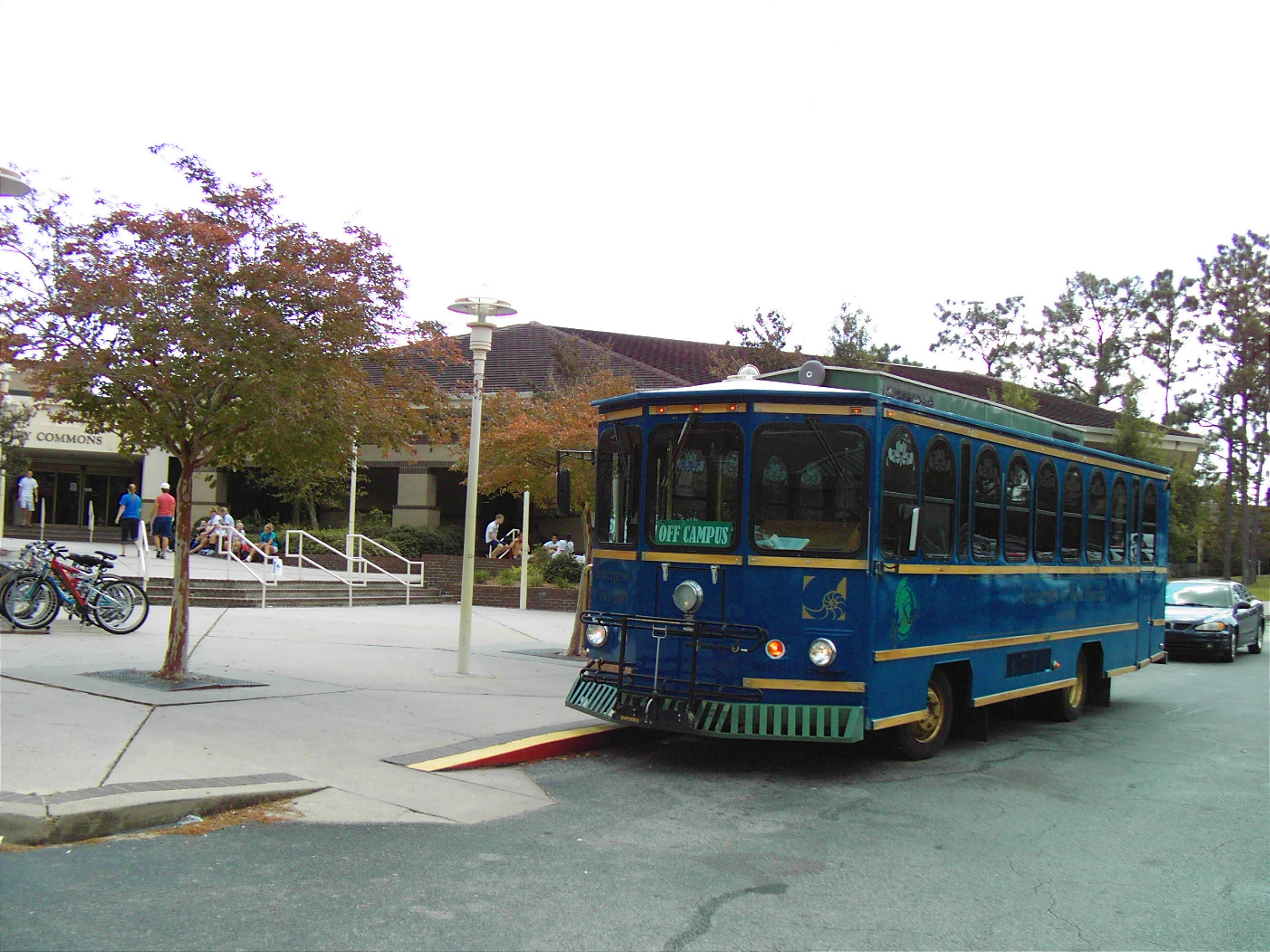 UWF Trolley